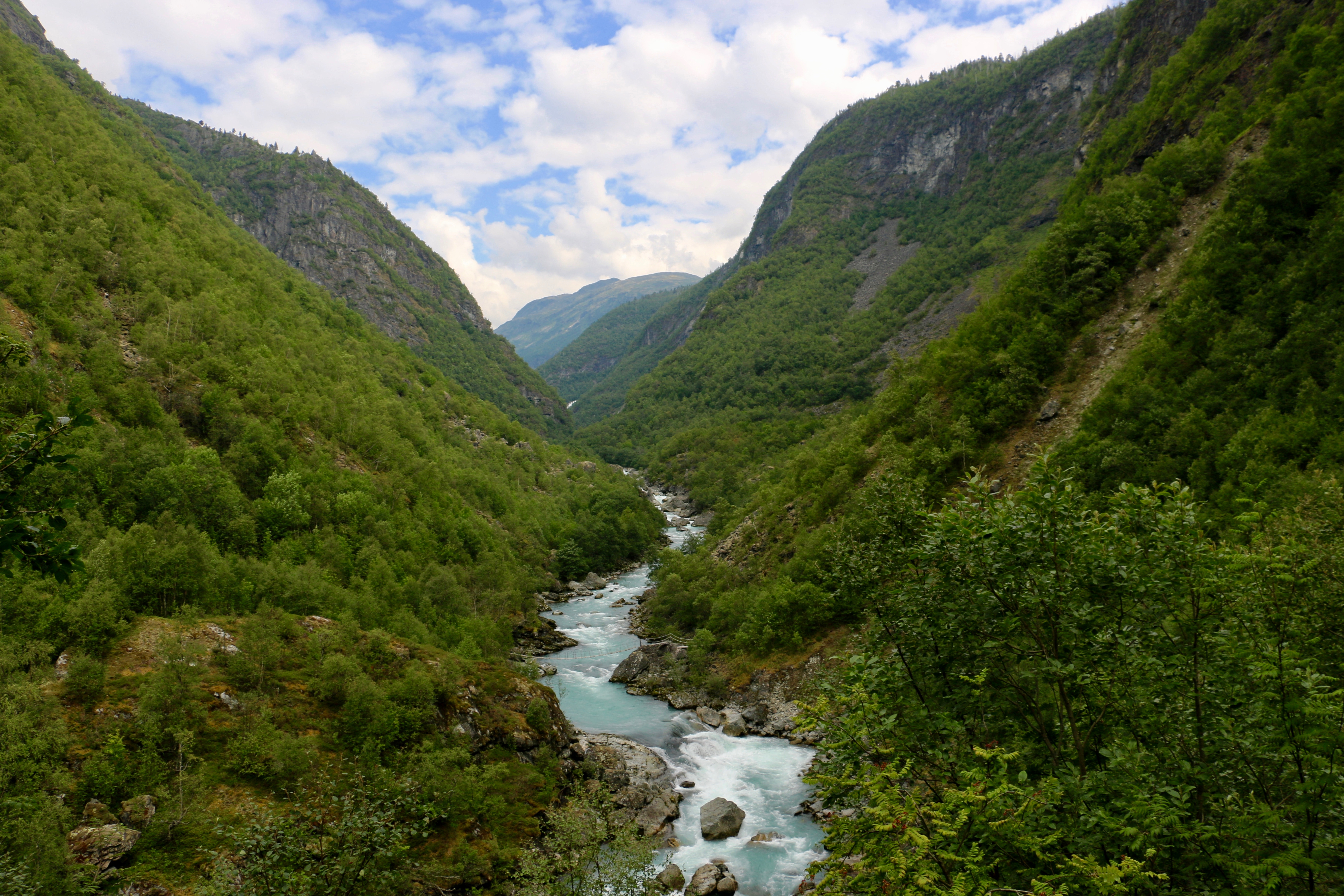 Utladalen near Vetti gard